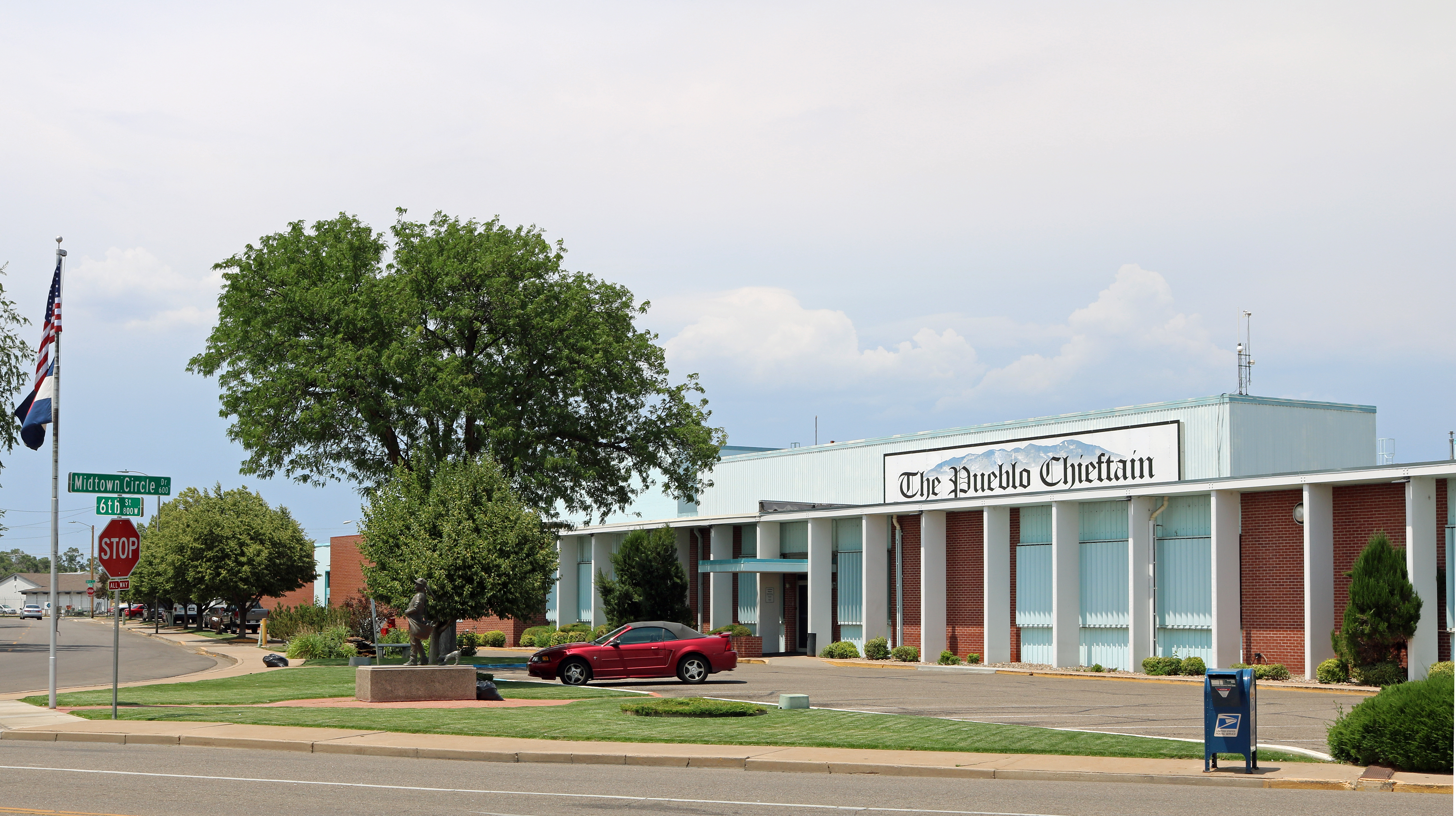 The offices of The Pueblo Chieftain, located at 825 West Sixth Street in Pueblo, Colorado.